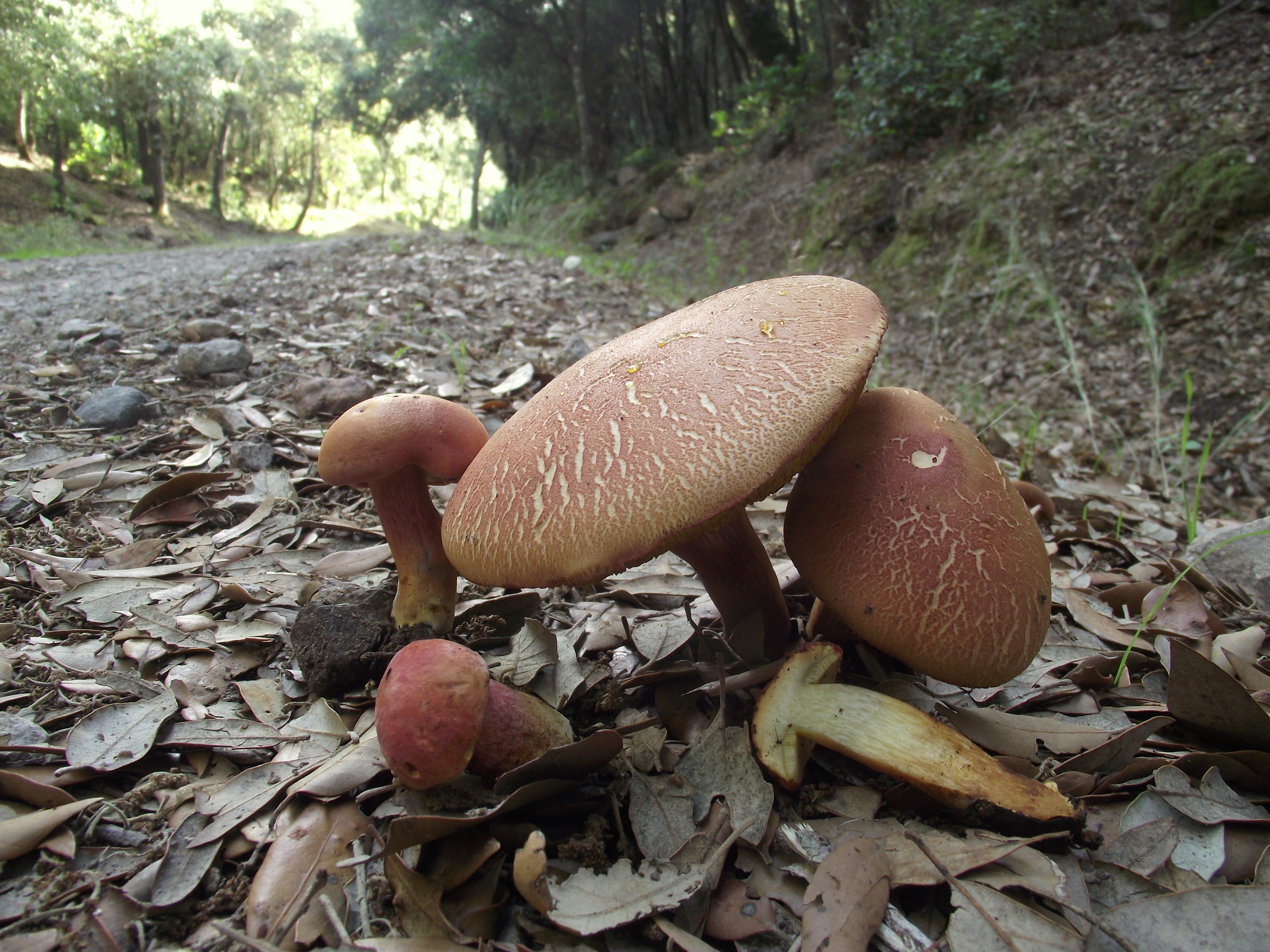 Fruit bodies of the bolete mushroom Rheubarbariboletus armeniacus. Photographed in Monte Arci, Sardinia, Italy.